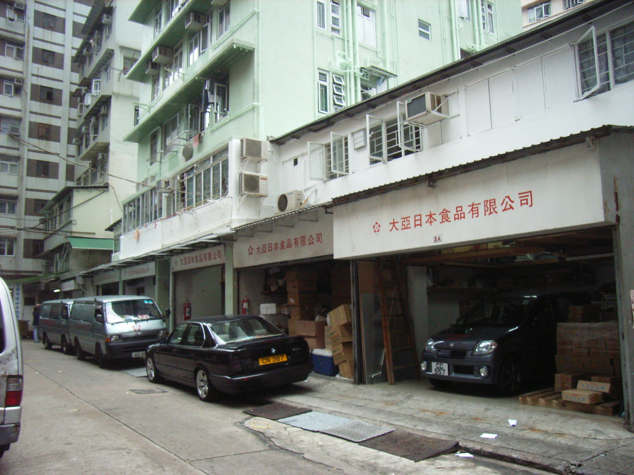 灣仔舊區街道 Wanchai old streets, Hong Kong. (A1 Wong East).